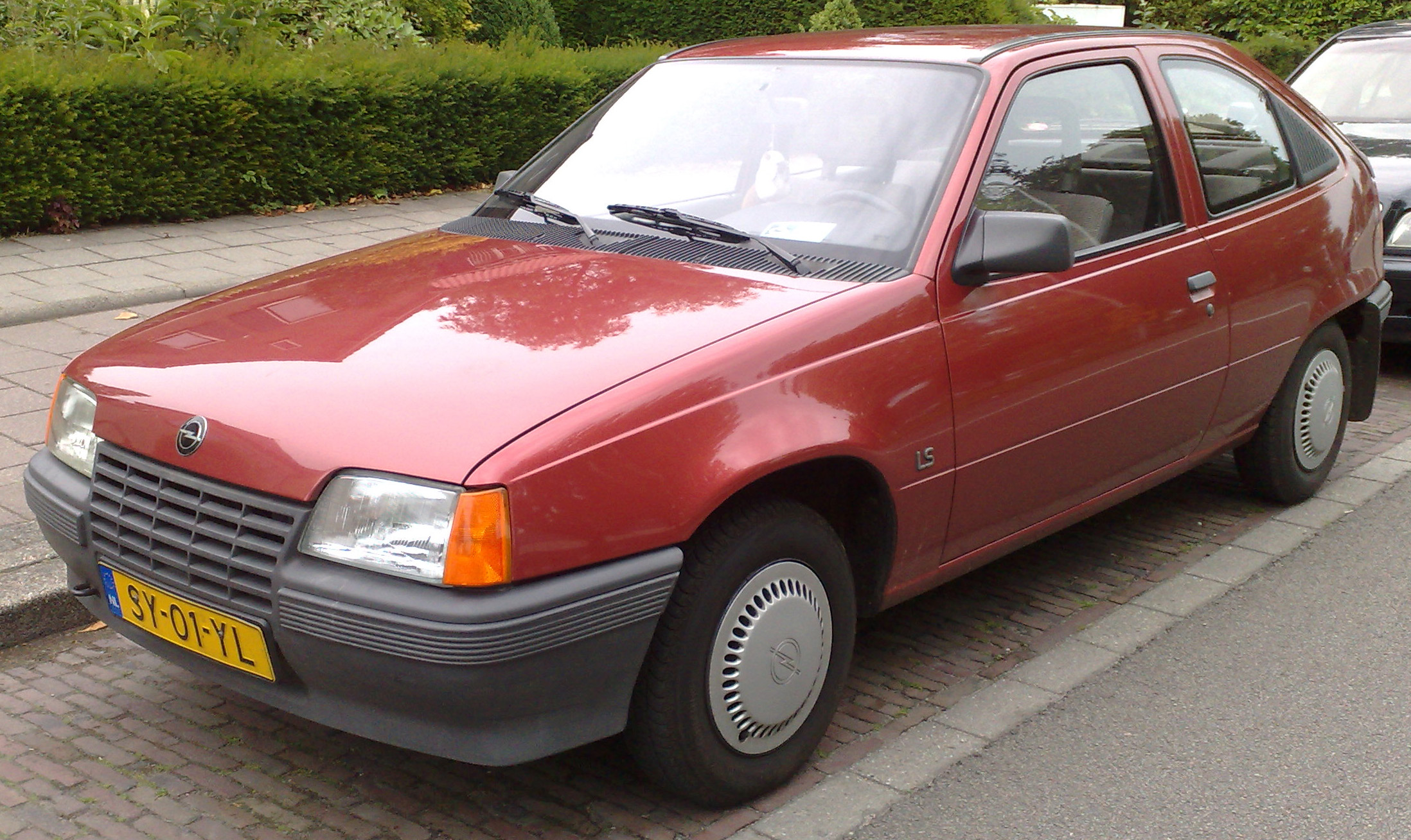 Opel Kadett LS 1.6 Automatic